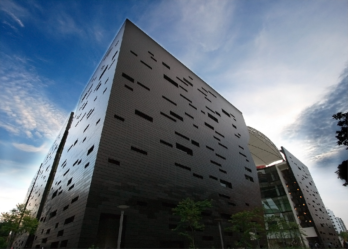 The City Campus of LASALLE College of the Arts at Rochor, Singapore. (The photograph was retouched with a faux HDR effect using an image editing program.)